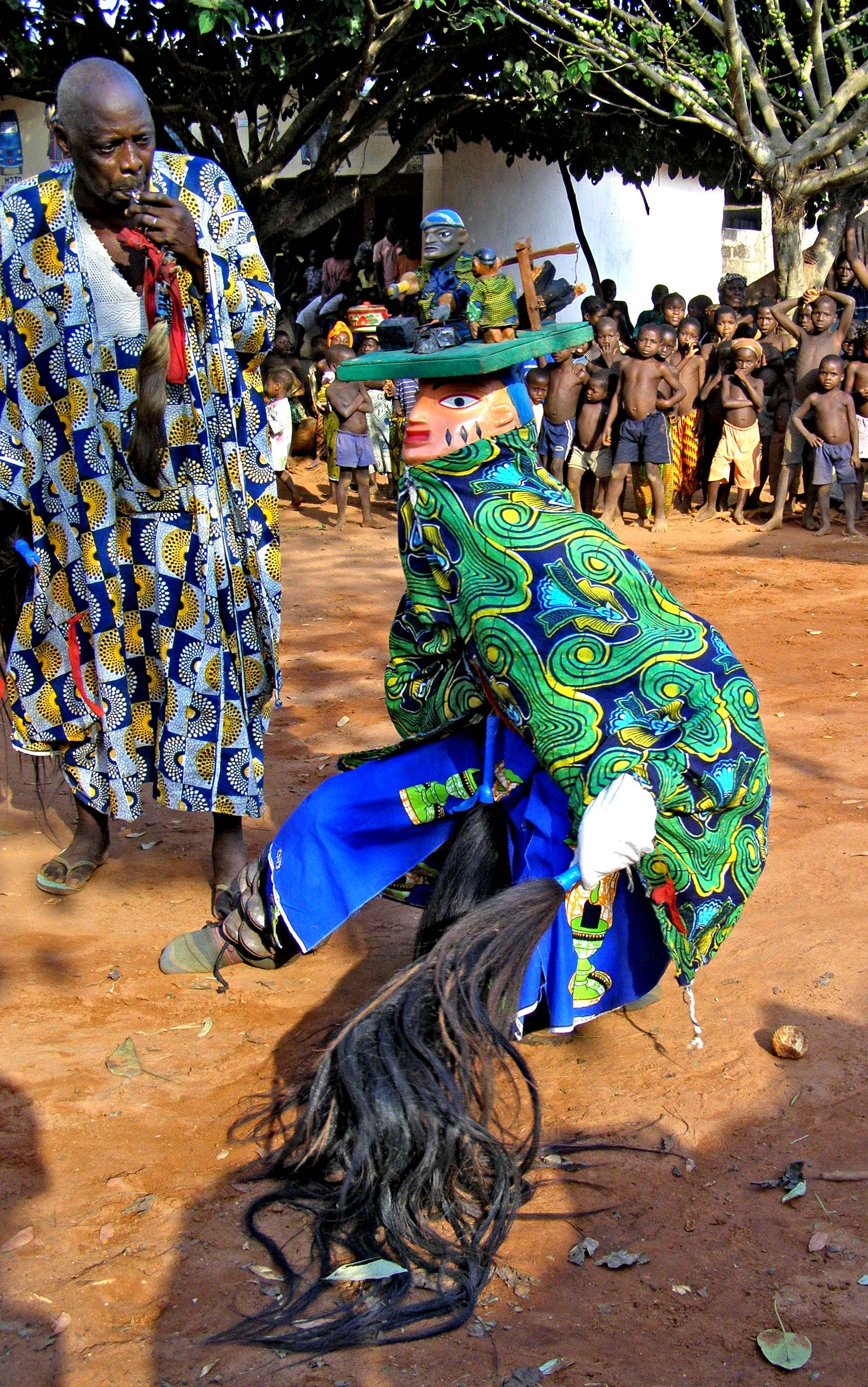 The Gelede Masked Festival of Cové, Benin